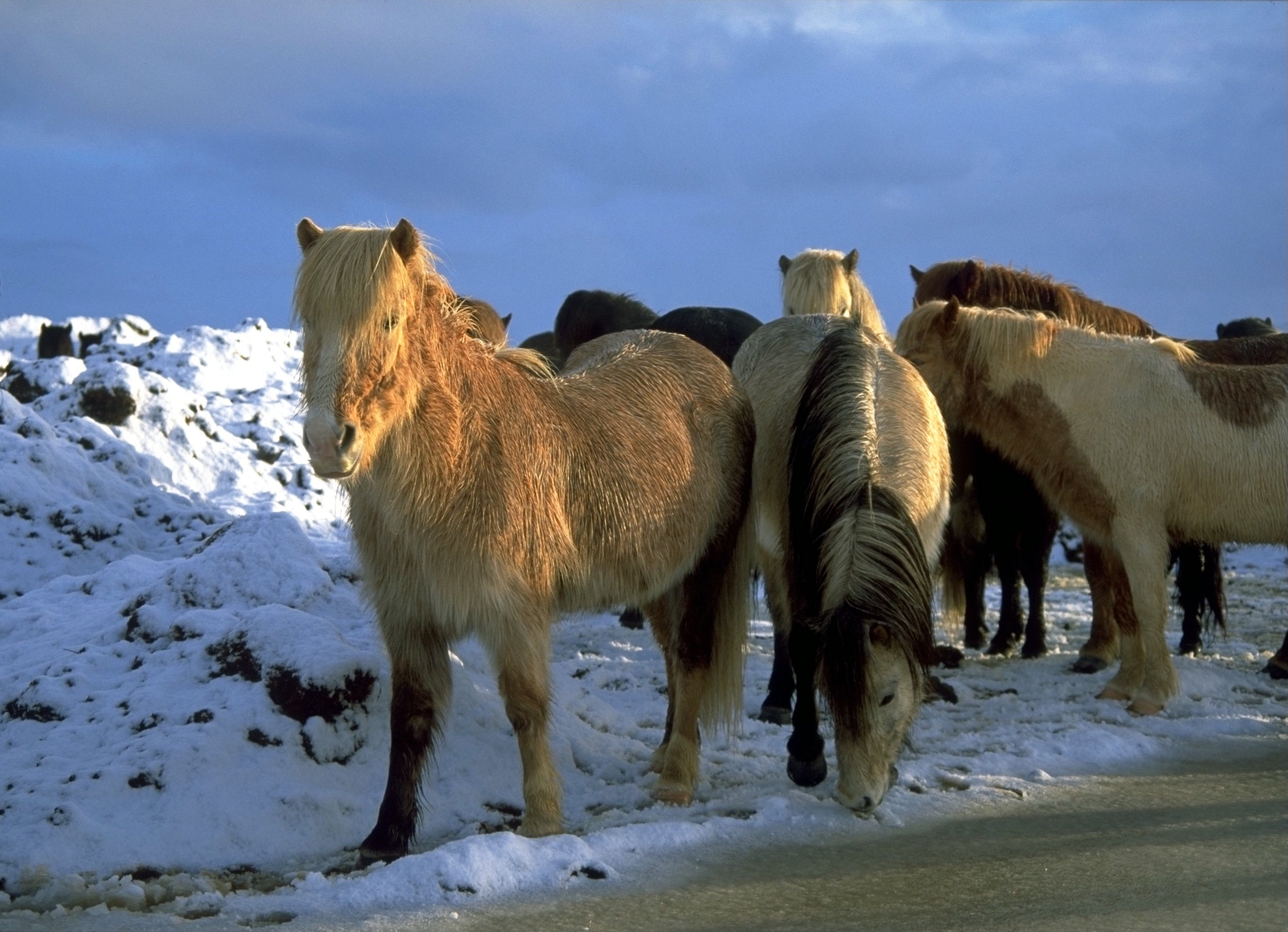 Icelandic horses in Winter,Skálholt, Iceland Photo was taken using the following technique: Film: Fuji Velvia Lens: 4/70-210 Filter: Body: Minolta Dynax 7 Support: Manfrotto 190B Image with Information in English Bild mit Informationen auf Deutsch